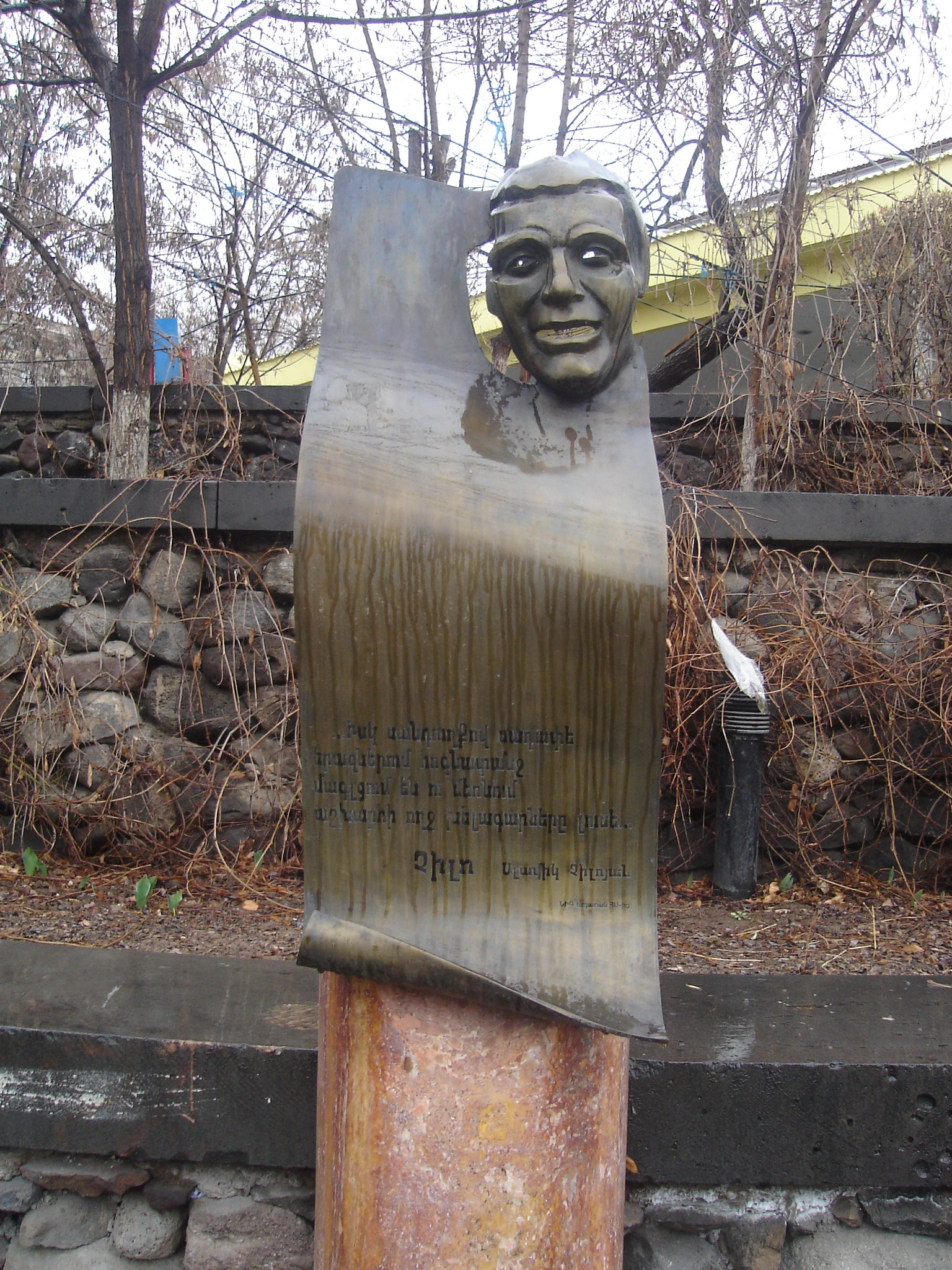 Poet Slavik Chiloyan's sculpture near "Aragast" café, 2005.